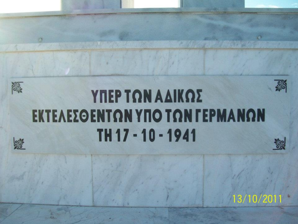 Caption of the sign from the main memorial of the massacre of the Axis Forces on WWII at Ano Kerdyllia and Kato Kerdyllia, Serres, Central Macedonia.(17-10-1941)